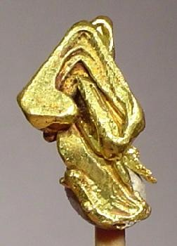 Gold Locality: Tuolumne County, California, USA (Locality at ) Size: 1.2 x 1.0 x 0.6 cm. A SUPERB and AESTHETIC, hoppered, octahedral gold crystal on a feathery stalk from an unknown mine in Tuolumne County, California. This two-sided beauty is a very rich golden-yellow and has high lustre. It is so sharp, that it looks CARVED. This exquisite thumbnail has classic, textbook form and is from the Ed Ruggiero Collection, who purchased this super piece from Pala Properties in 1975.